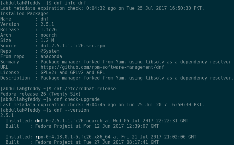 DNF 2.5.1 is shown running atop Fedora 26.